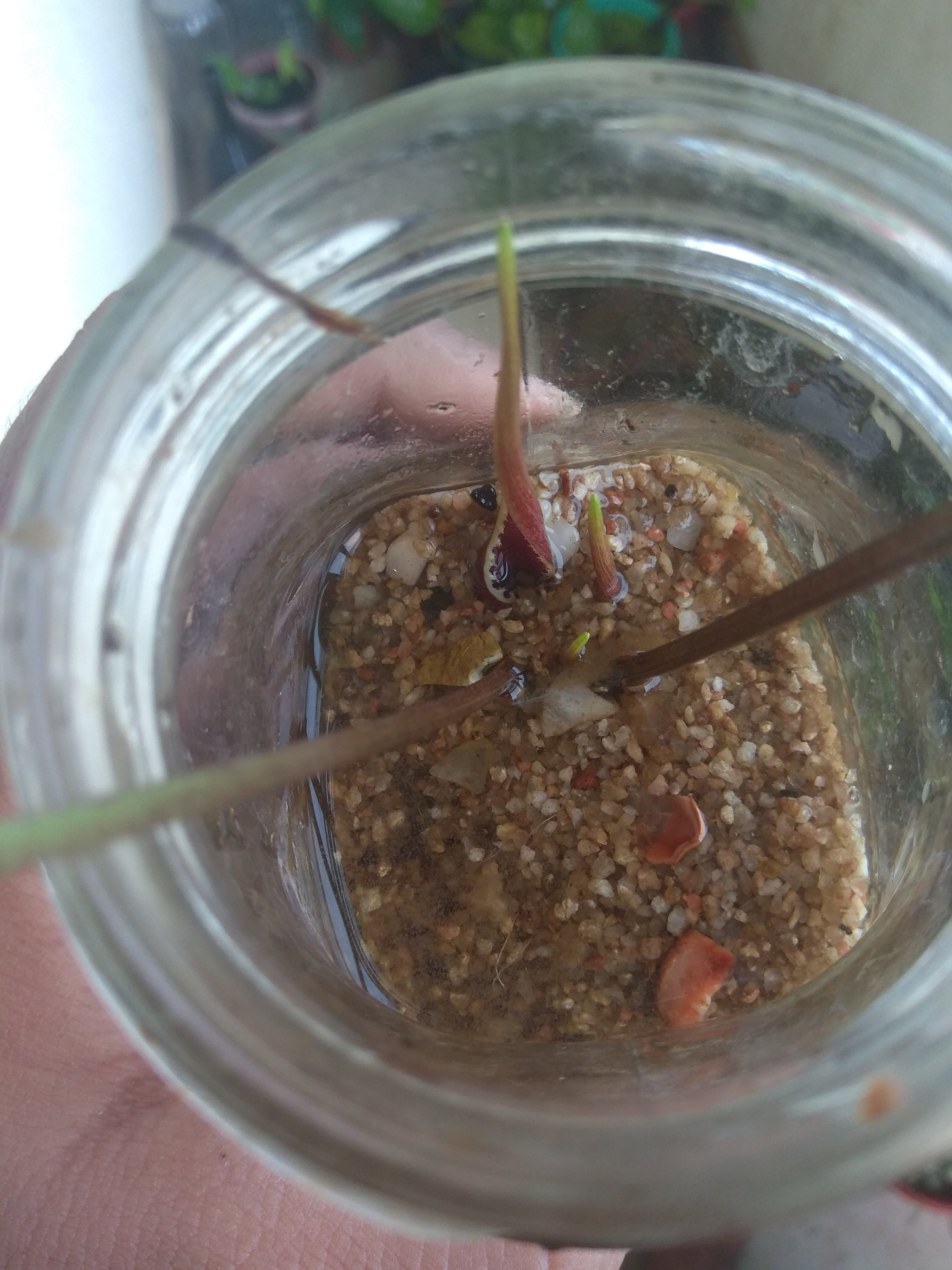 This is a flower of aquatic plant Cryotocorne spiralis var Spiralis. The type of flower is Spathe which is characteristic of Aroid (Araceae family of plants) angiosperms.